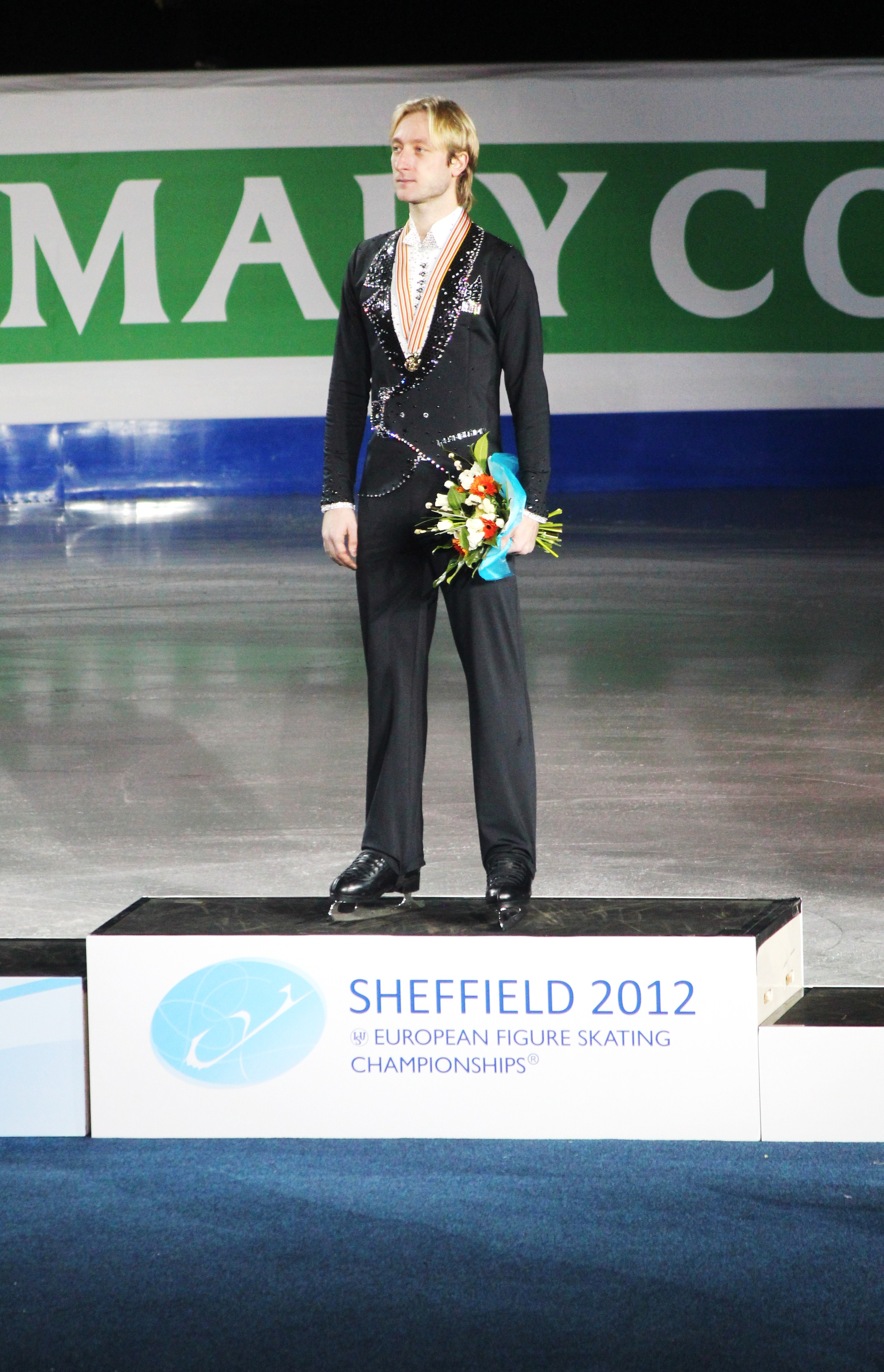 Evgeni Plushenko during the men's medals ceremony at the 2012 European Figure Skating Championships